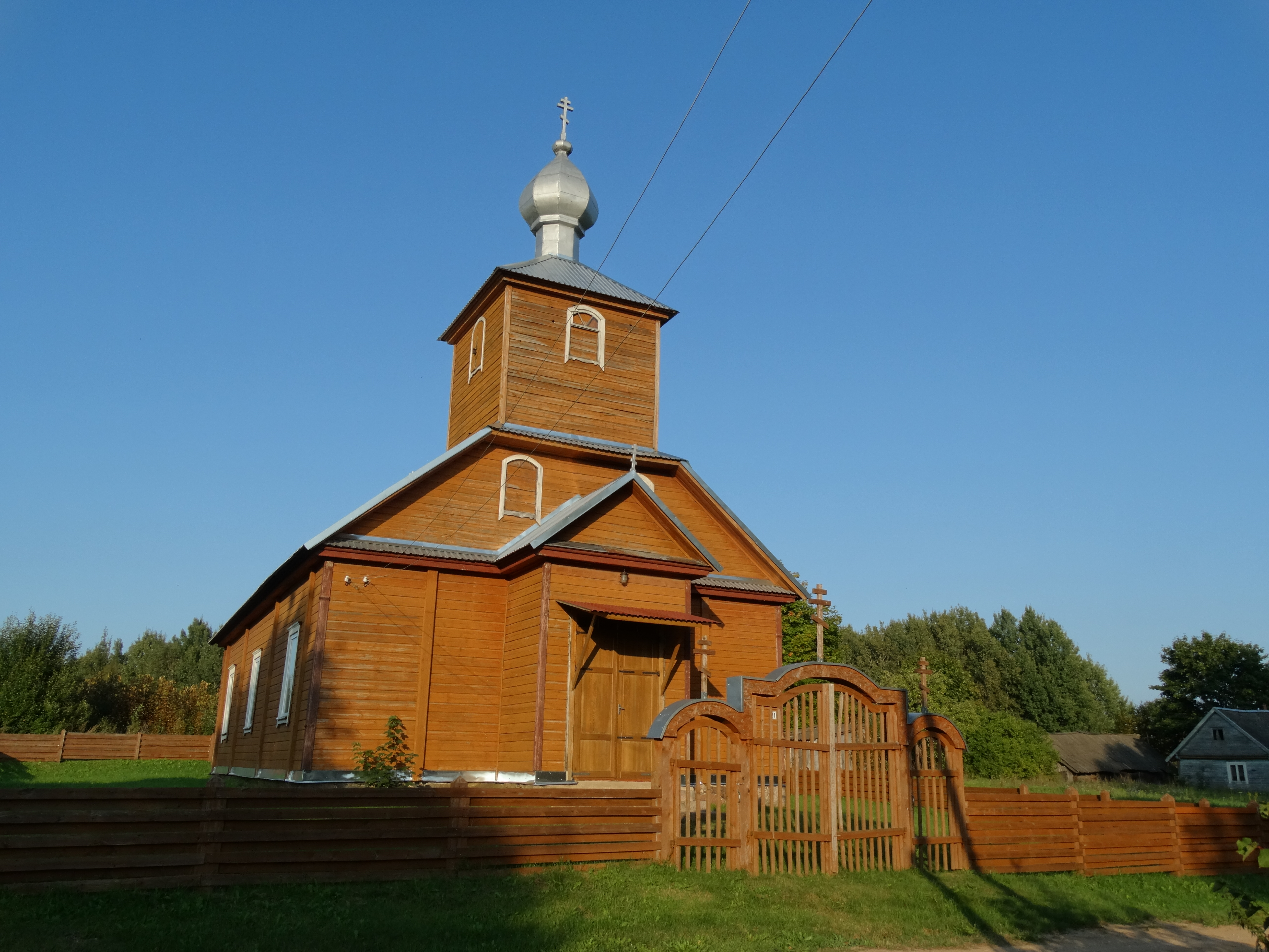 Church of Old Believers in Raistiniškės, Zarasai district, Lithuania